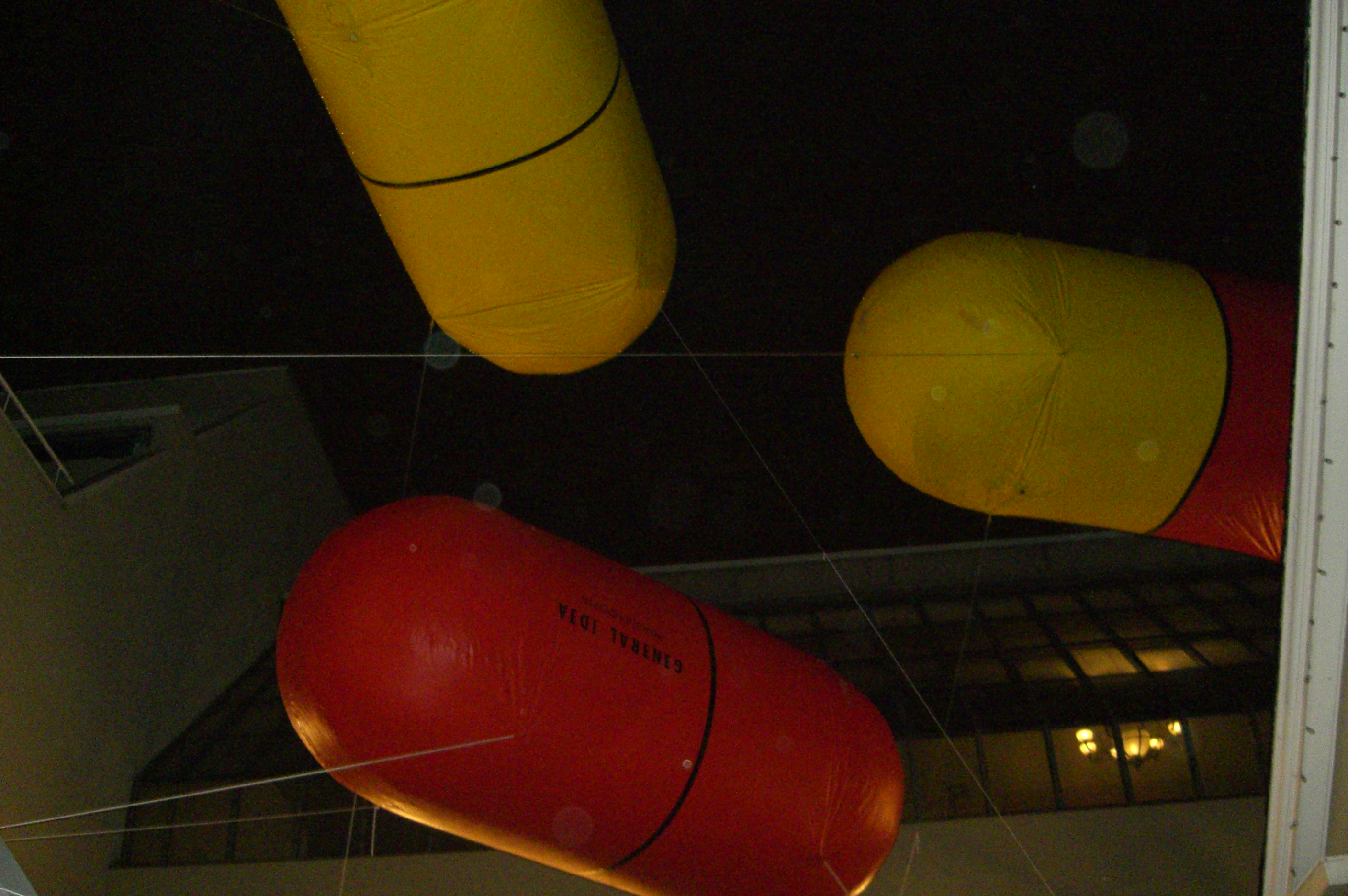 General Idea's work Pharma©opia, displayed at Toronto's 2006 Nuit blanche.